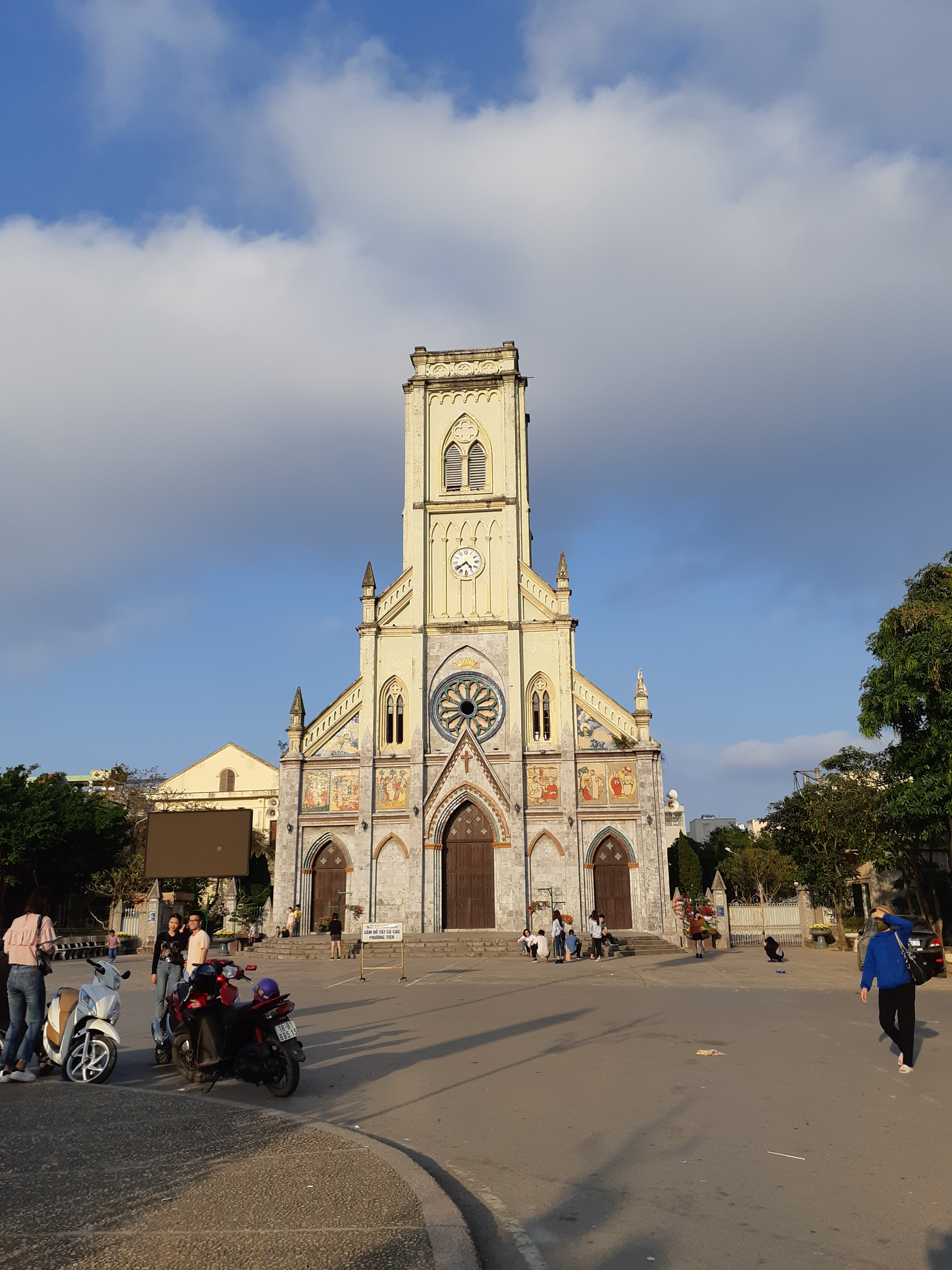 Nam Dinh's Nha tho Lon, at 16 Hai Ba Trung Street, Nam Dinh City, Nam Dinh Province, Vietnam.